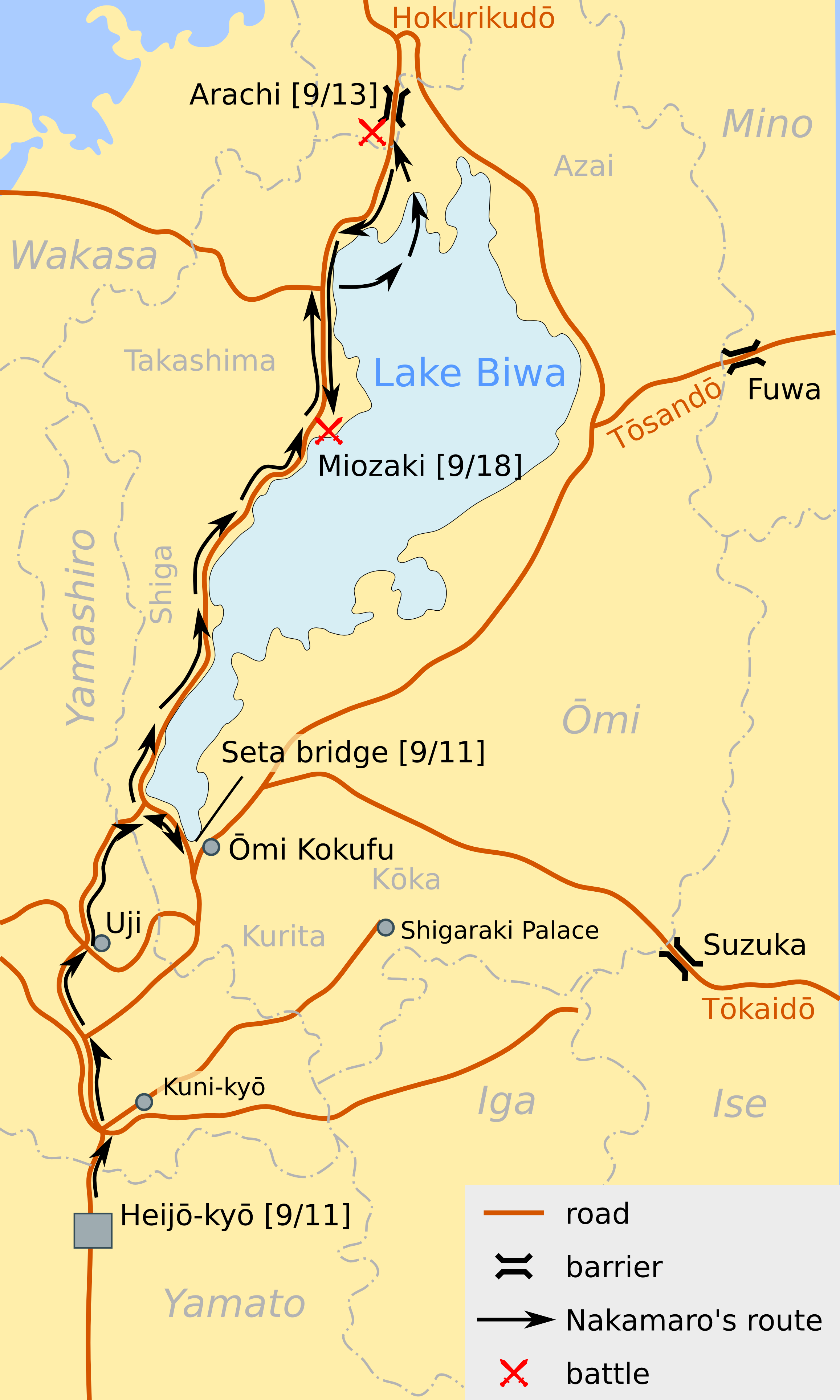 Map showing the route and battle sites of the 764 Fujiwara no Nakamaro Rebellion in Japan